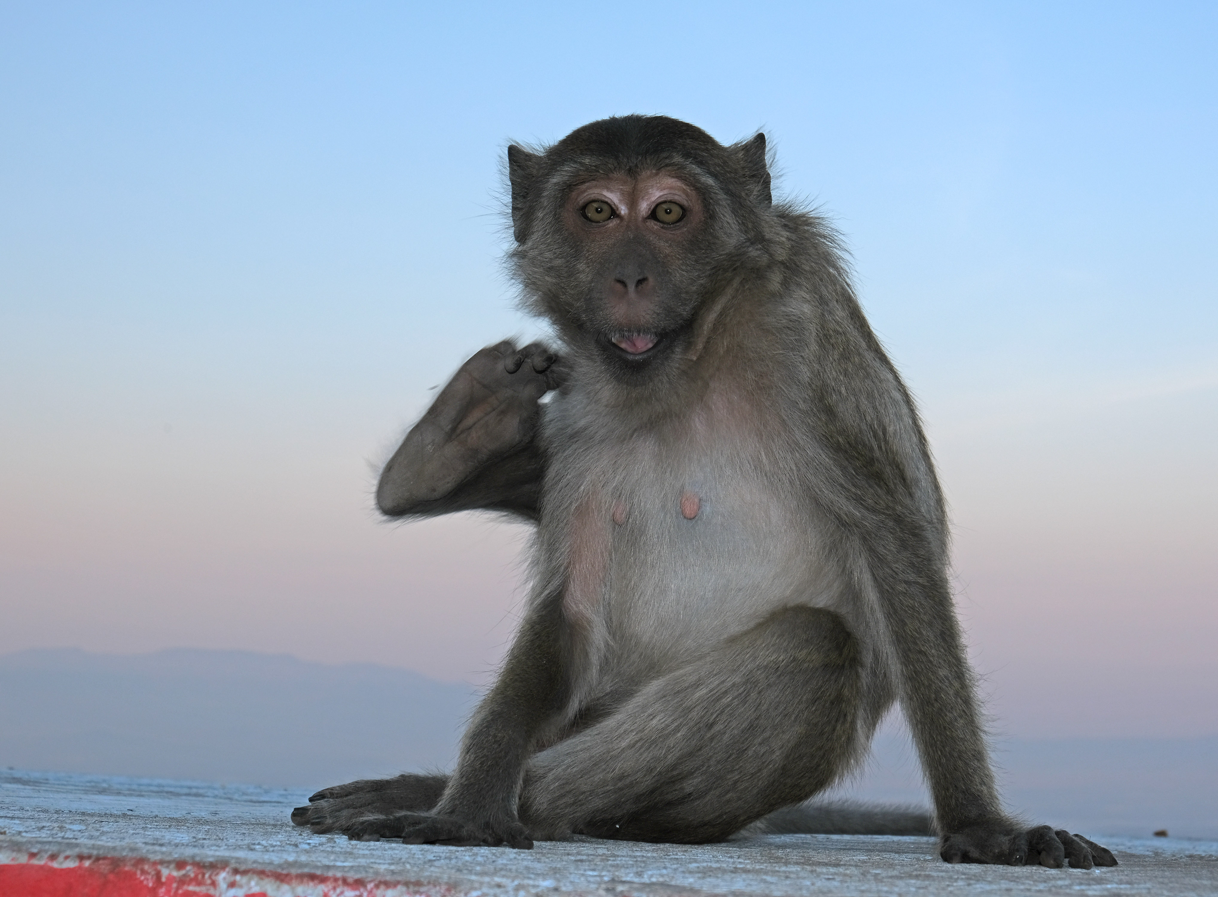 Monkey in Mount Zwegabin Monastery, Hpa An, Myanmar.